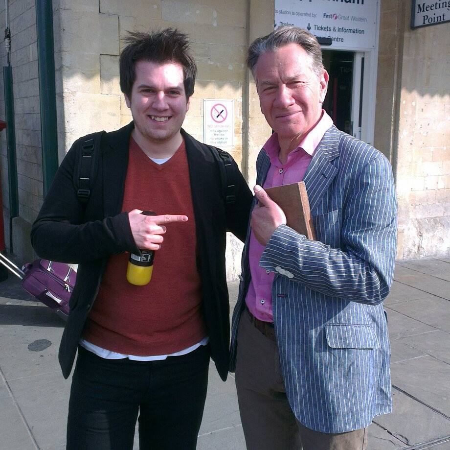 Micheal Portillo with fan in Chippenham